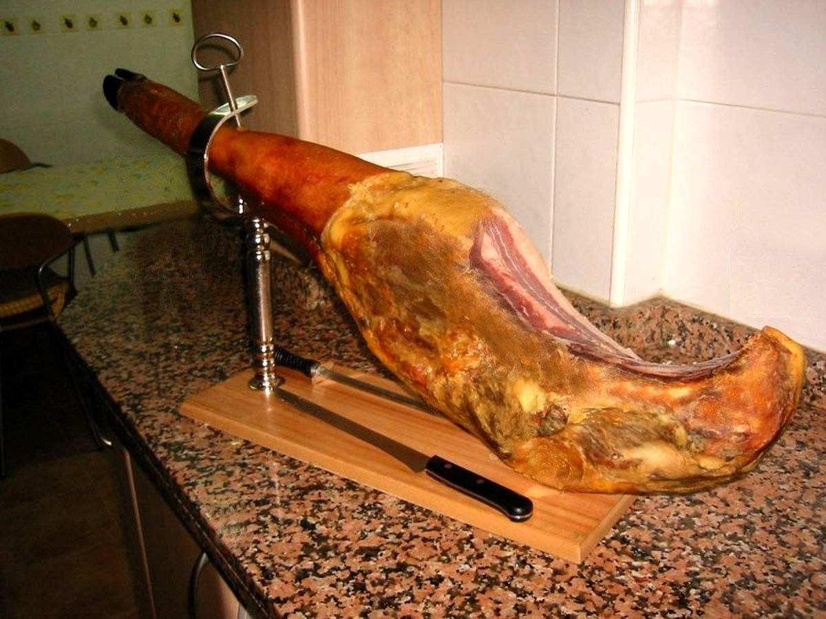 A "prosciuto holder" with a "Jamón Pata Negra" in it